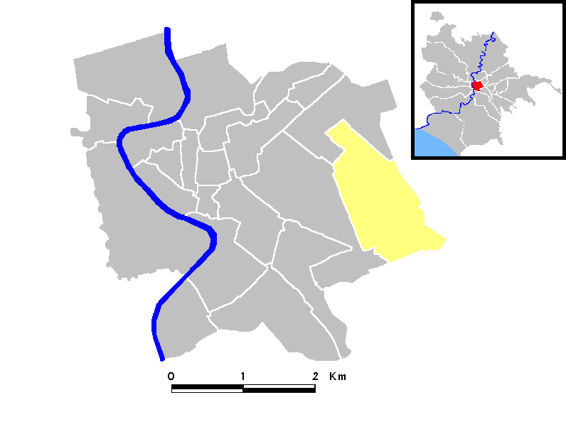 Locator maps of Rome (rioni)